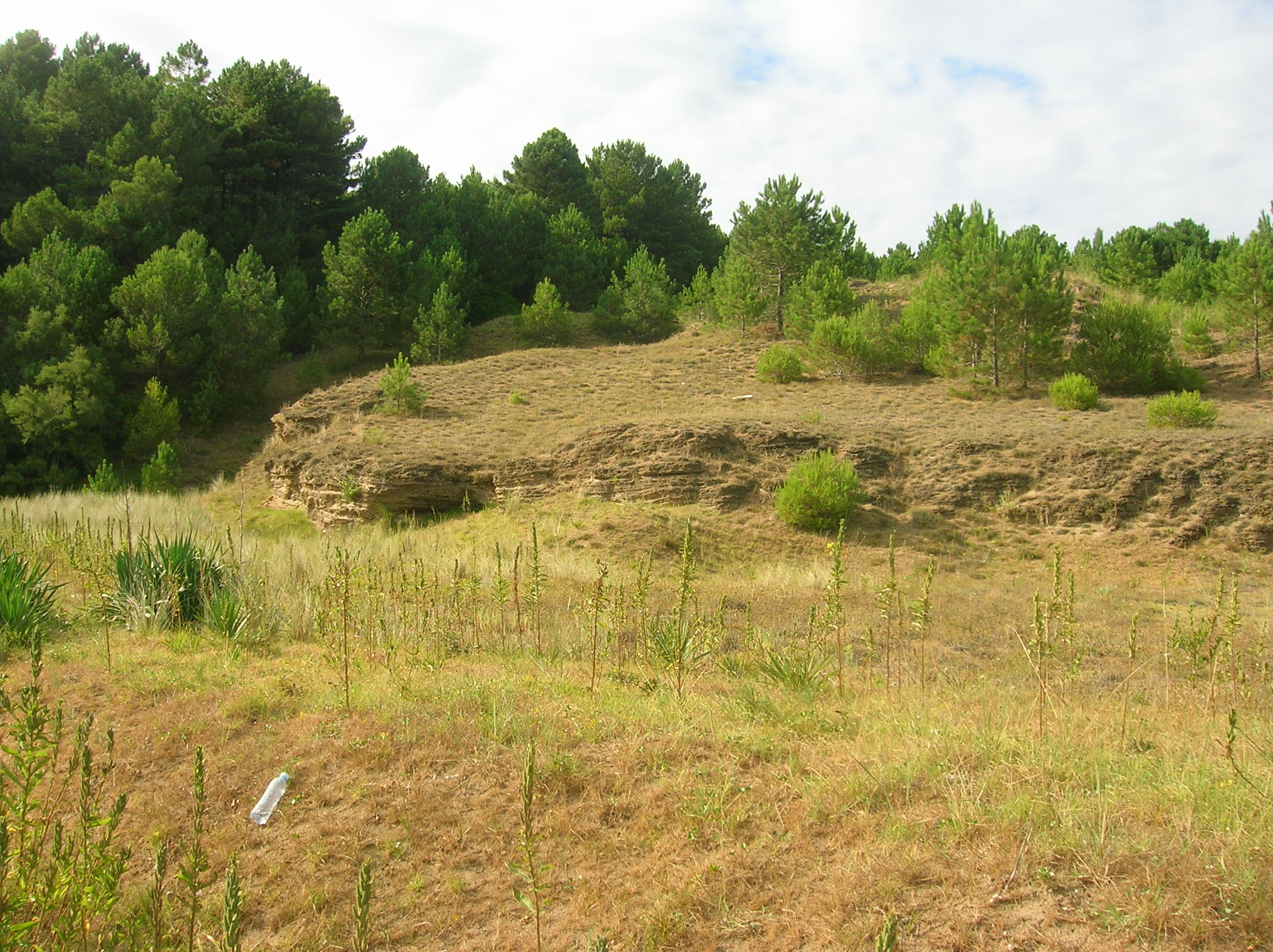 Dunes of Astondo, in Gorliz, Biscay, August 7, 2007Euskara: Astondoko Dunak, Gorliz, Bizkaia, 2007ko agorrilaren (abuztuaren) 7an. This is a photography of a Special Area of Conservation in Spain with the ID: ES2130004. Natura2000 entry, EEA entry